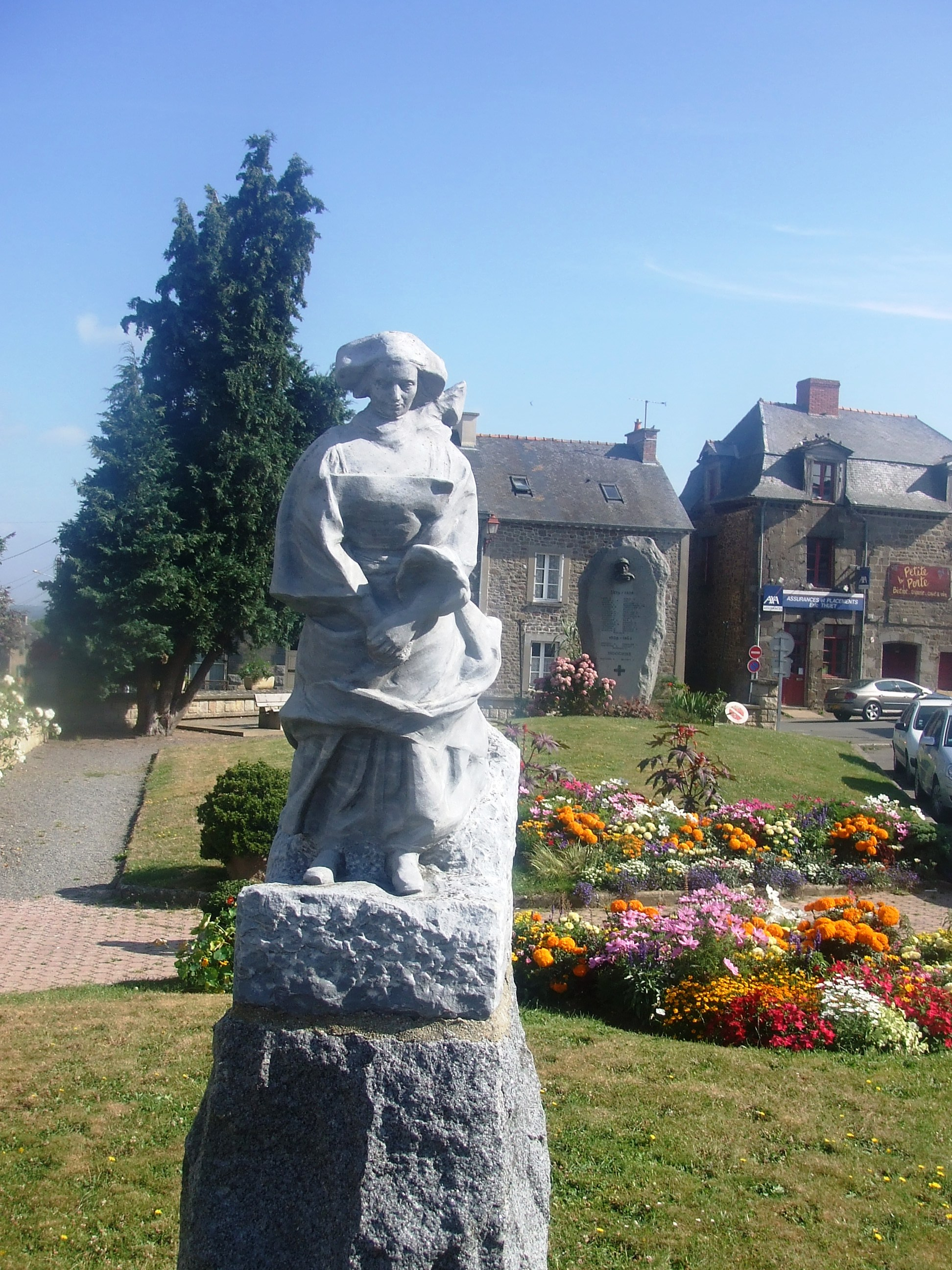 photograph of the town square of Hédé, Ille-et-Vilaine, showing a statue by Jean Boucher and war memorial.